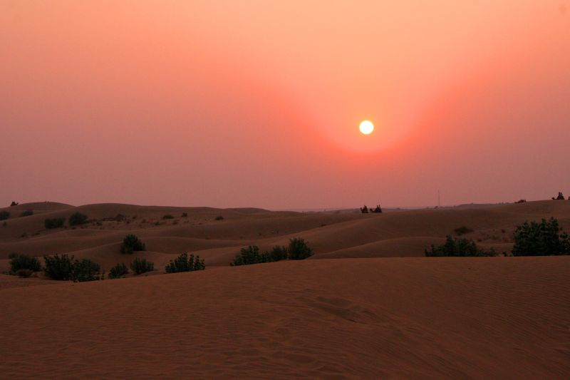 "We rode out to the Thar desert on camels. Seems peaceful but around us were touts and dancers who wanted compensation for their unwanted dances."